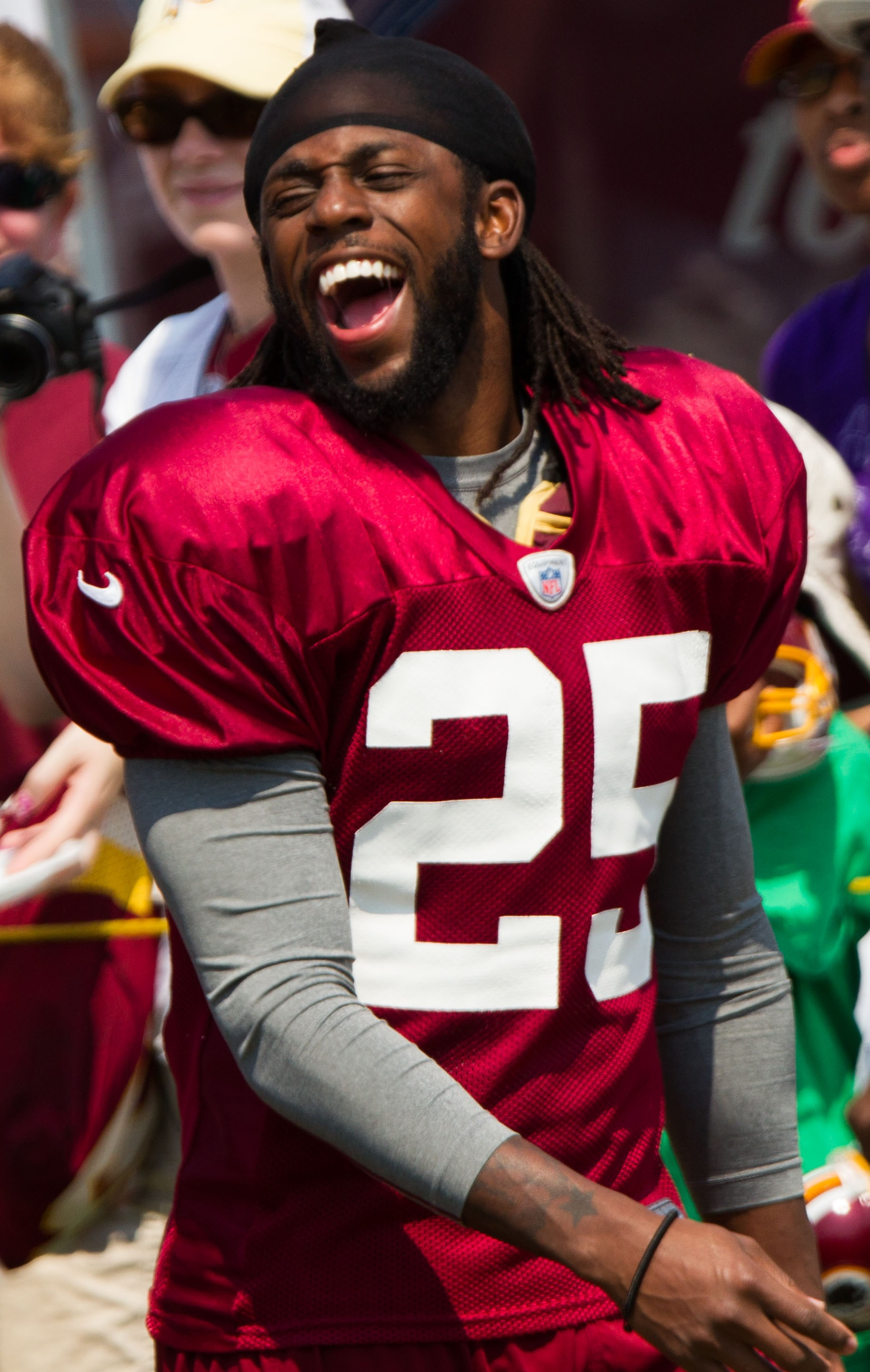 David Jones at Washington Redskins Training Camp August 1, 2012